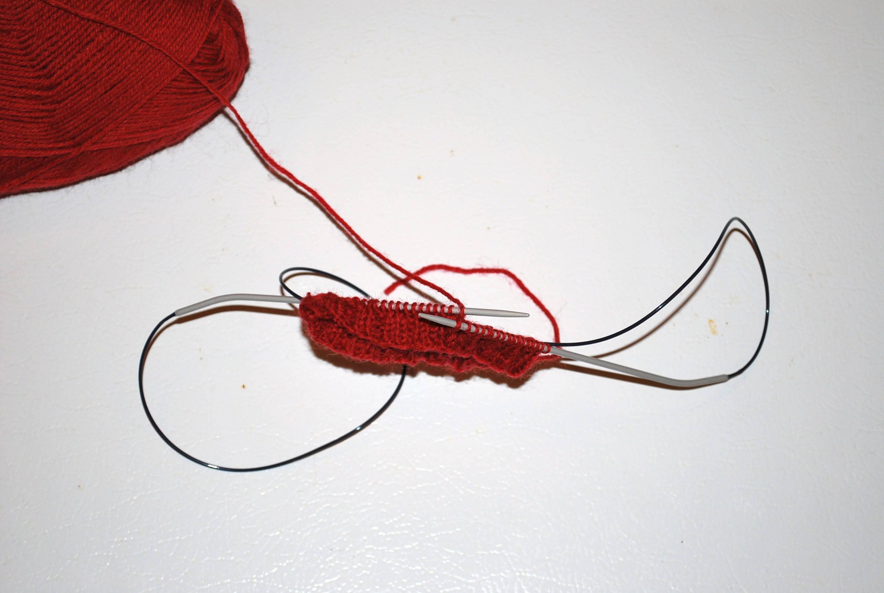 Example of magic loop tubular knitting using one circular needle